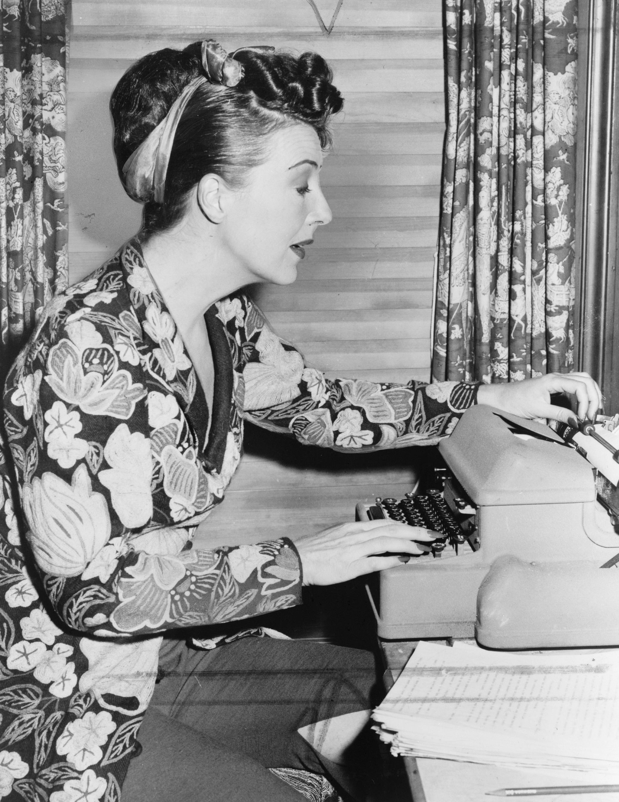 Gypsy Rose Lee, three-quarter length portrait, seated at typewriter, facing right / World Telegram & Sun photo by Fred Palumbo.